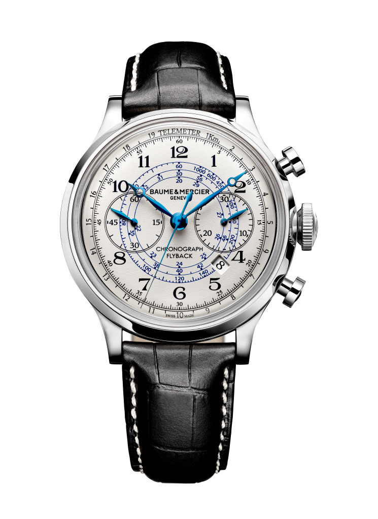 The Baume & Mercier Capeland model watch